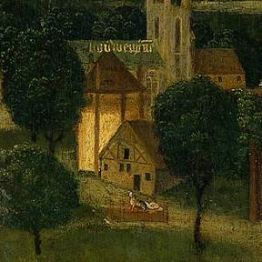 Detail of the St Elizabeth’s Day Flood, 18-19 November 1421 [showing the floating cradle with a cat and Beatrix de Rijke ].